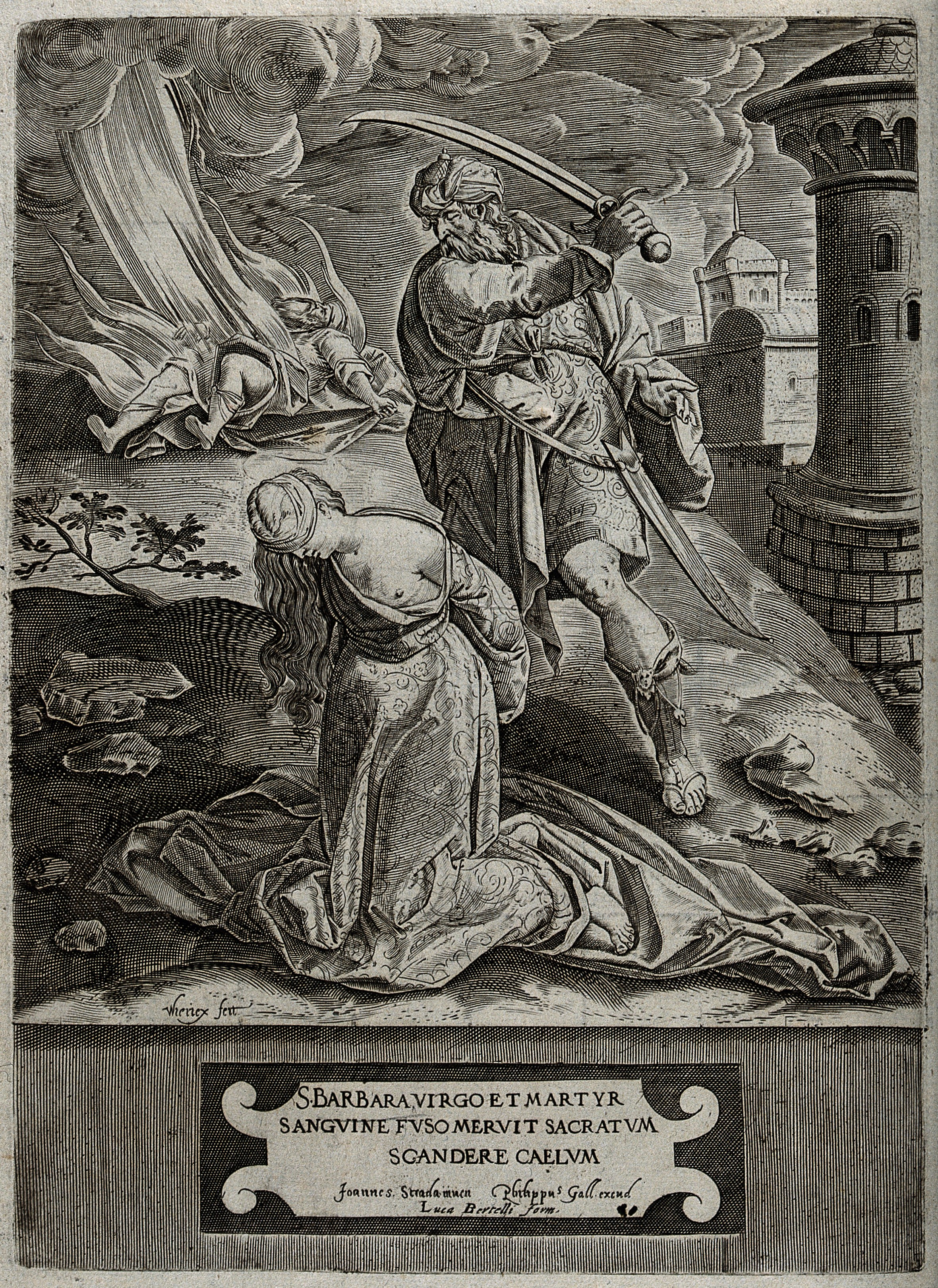 Martyrdom of Saint Barbara. Engraving by Wierix after Jan van der Straet. Iconographic Collections